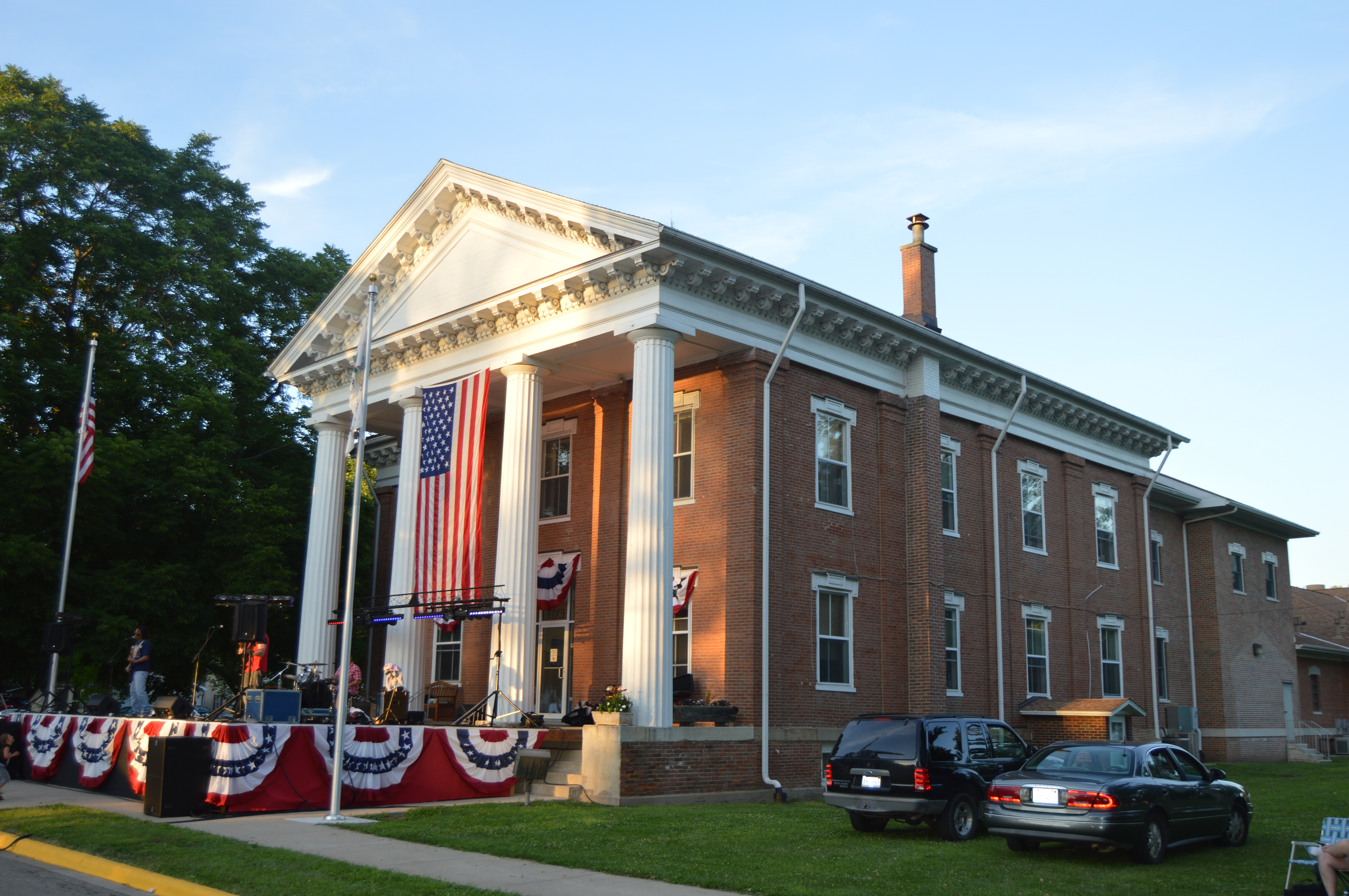 Front and southern side of the Putnam County Courthouse, located on Fourth Street facing the village park in Hennepin, Illinois, United States. Built in 1839, it is listed on the National Register of Historic Places. A rock band is playing on the steps during the evening portion of the village's Independence Day celebrations.